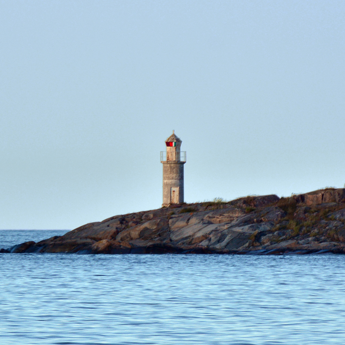 The lighthouse Högskär north of Arholma, Stockholm archipelago, Sweden.